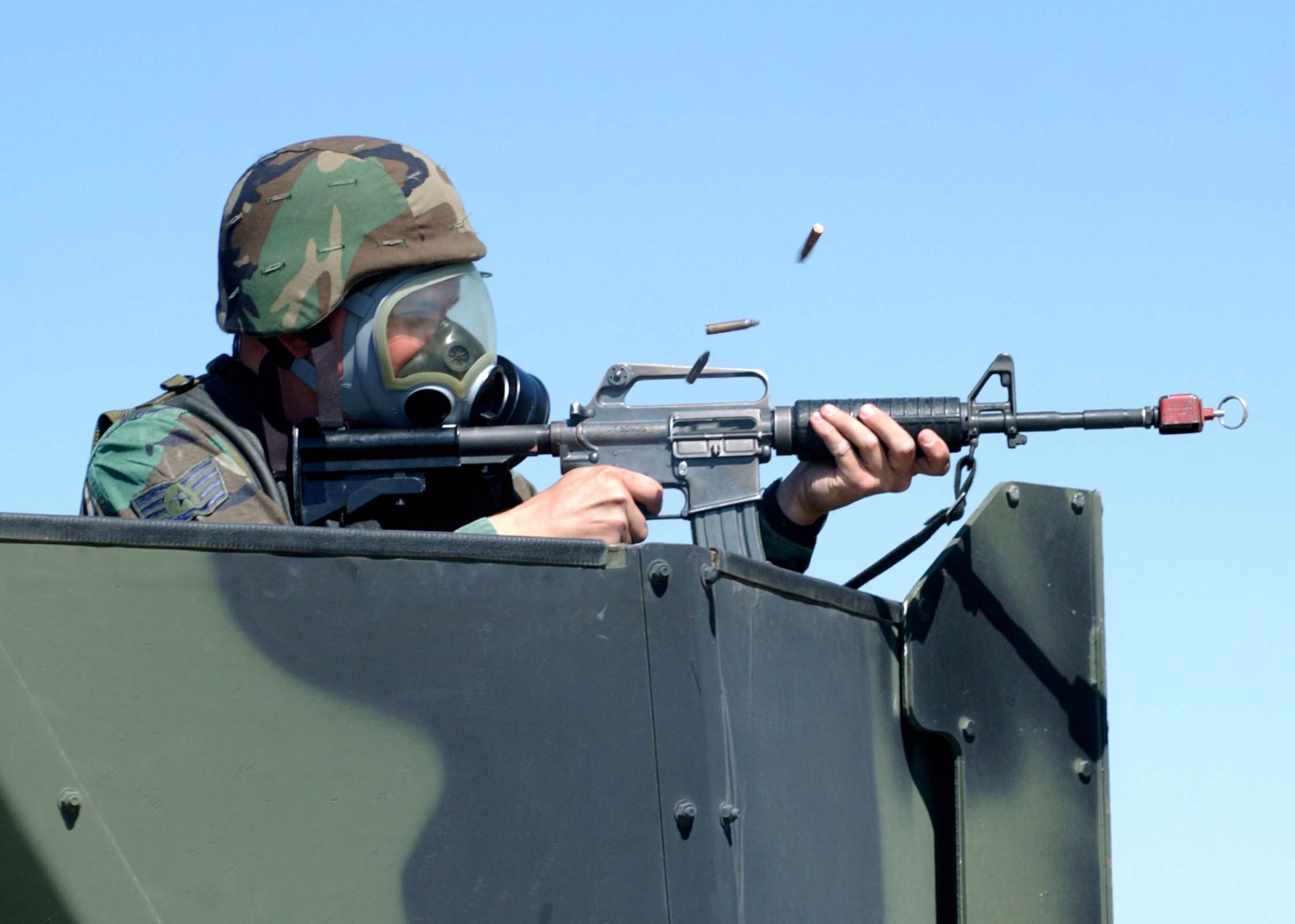 Defenders INCIRLIK AIR BASE, Turkey - An Airman assigned to the 39th Security Forces Squadron fires his Colt Commando during an exercise here Sept. 7. (U.S. Air Force photo by Airman Bradley A. Lail)